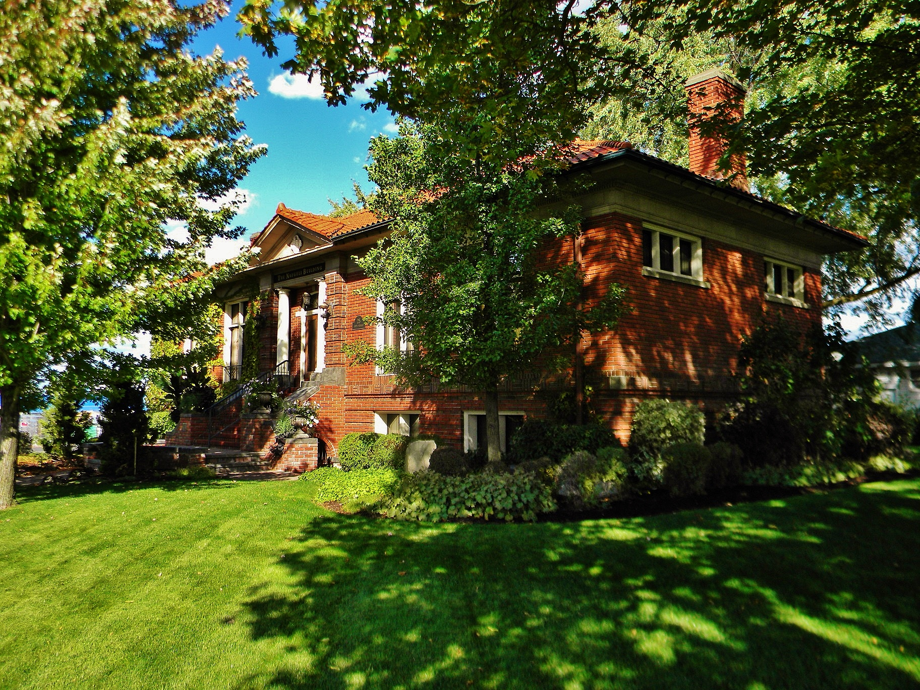 Spokane Public Library Facility is currently purposed as a legal services office.